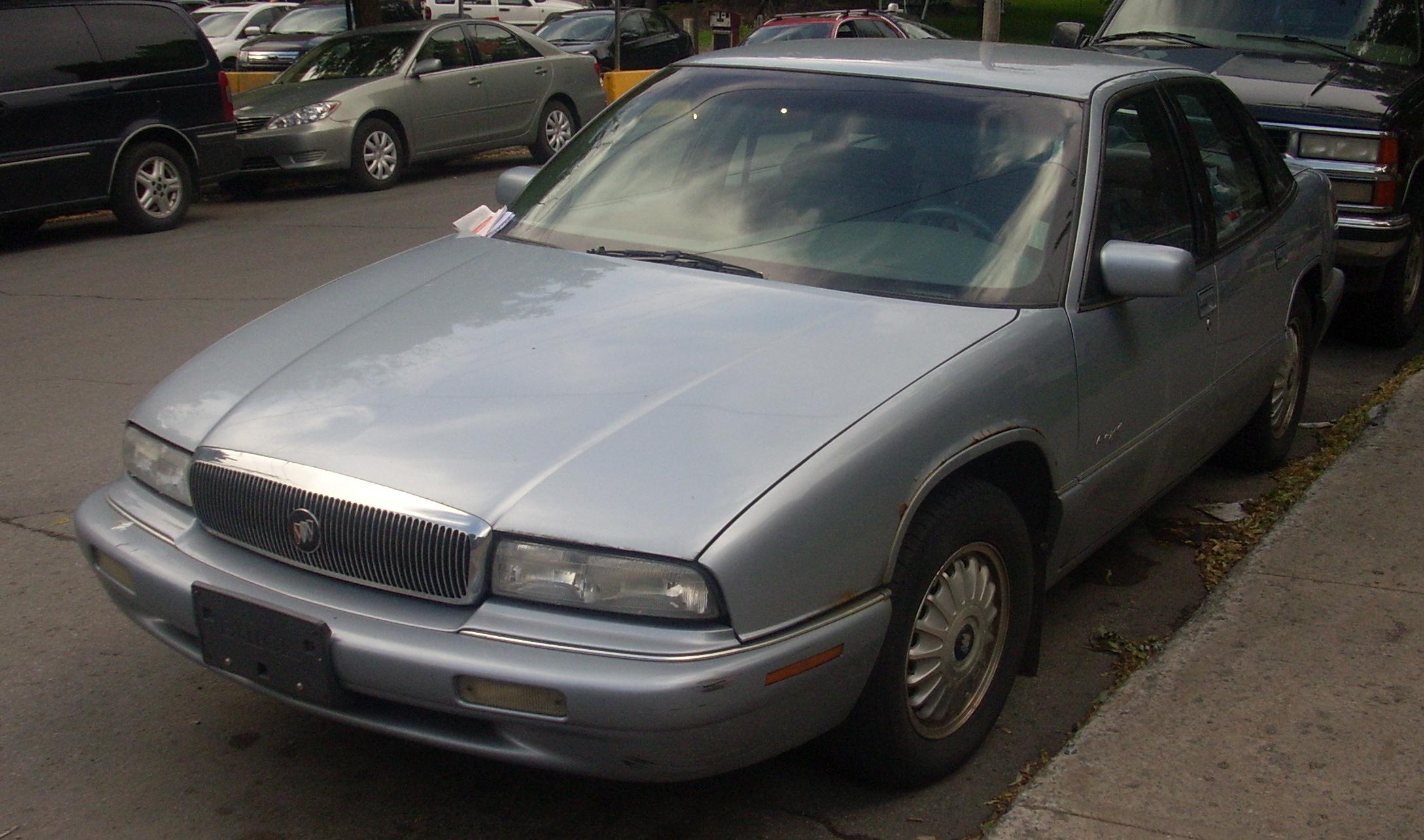 1995 Buick Regal photographed in Montreal, Quebec, Canada.